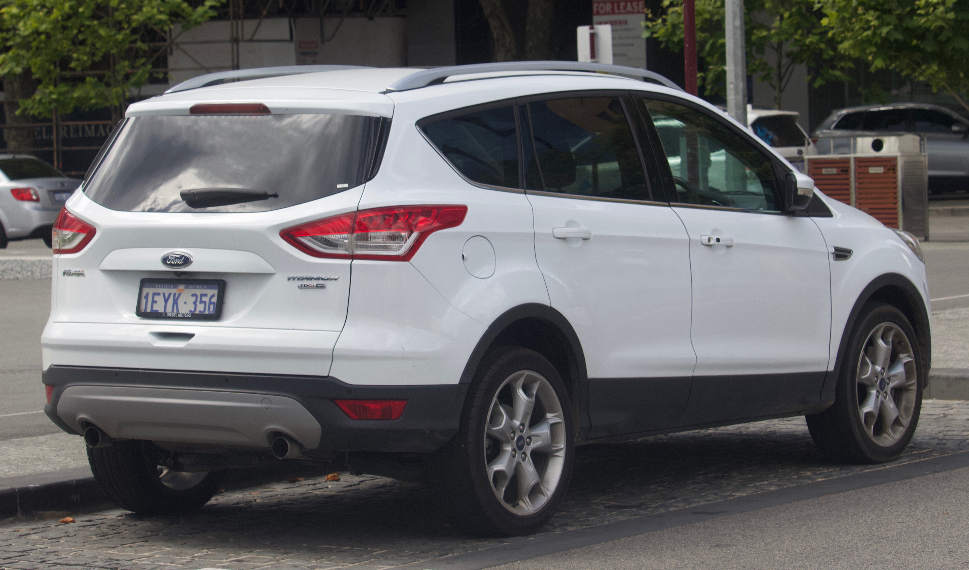 2016 Ford Kuga (TF II MY16) Titanium TDCi wagon. Photographed at Elizabeth Quay, The Esplanade Perth, Western Australia, Australia.